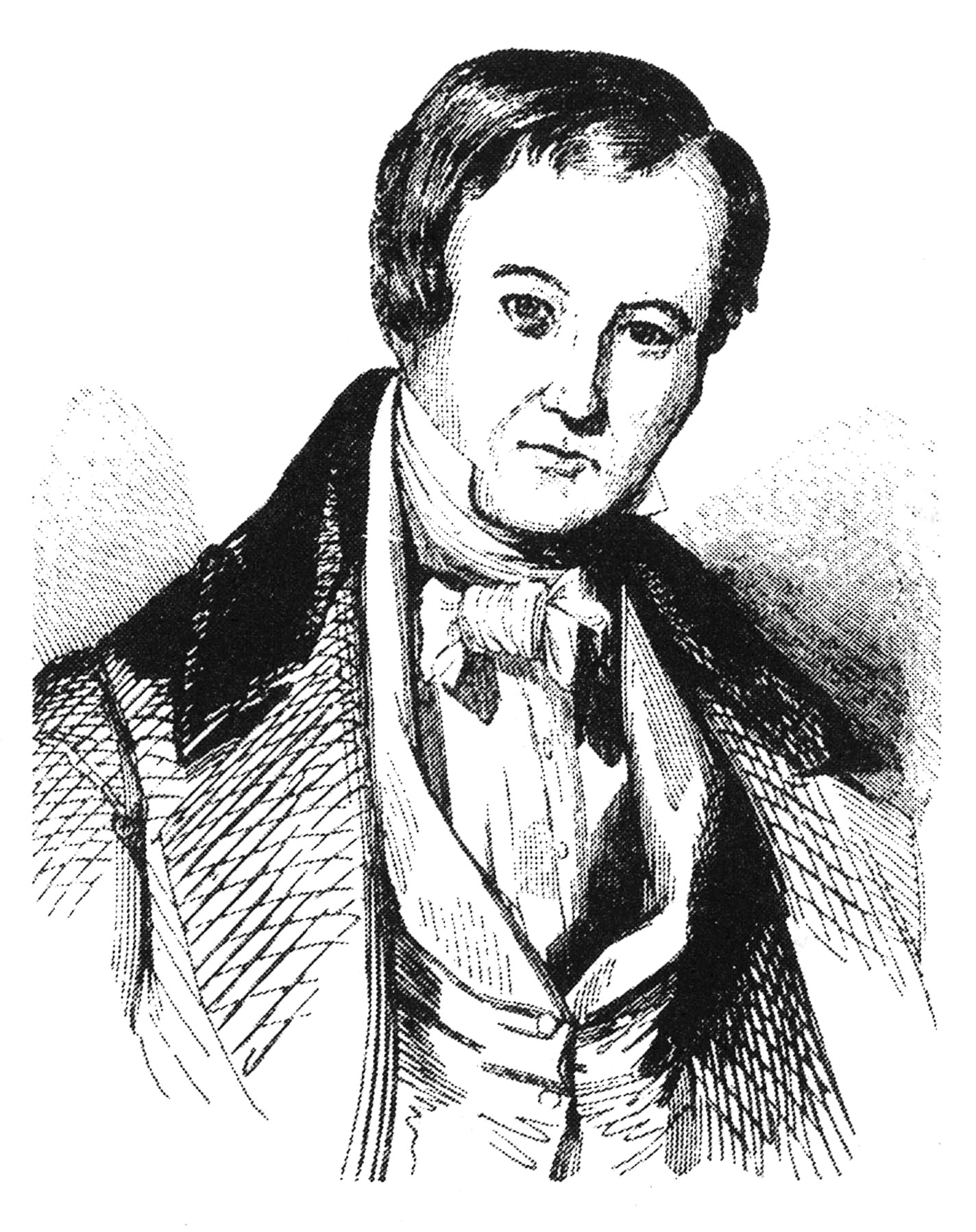 Constantin Siegwart-Müller (1801-1869), Swiss politician of Uri, chairman of the Sonderbund War Council.